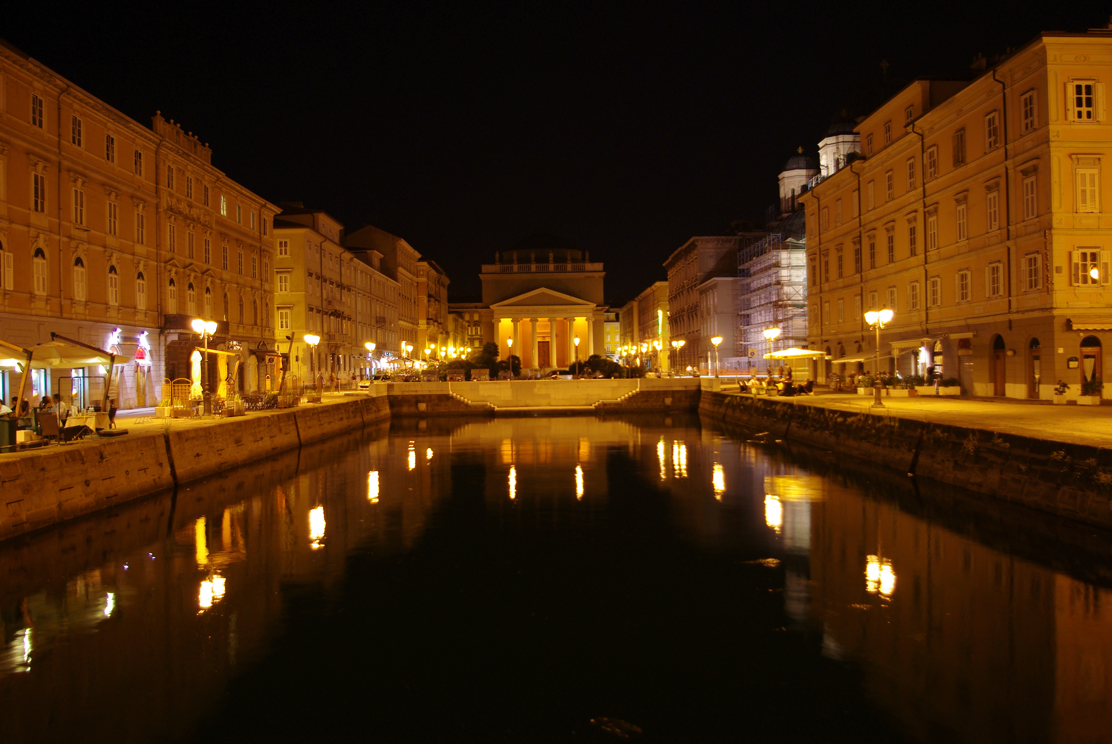 Canal Grande in Trieste, Italy.